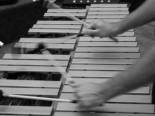 4 mallet vibraphone technique (Musser 55 w/ vanderPlas bars), Joe Locke, Köln June 2007